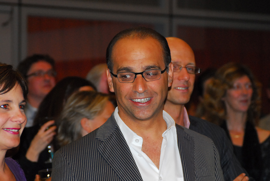 Theo Paphitis in 2007